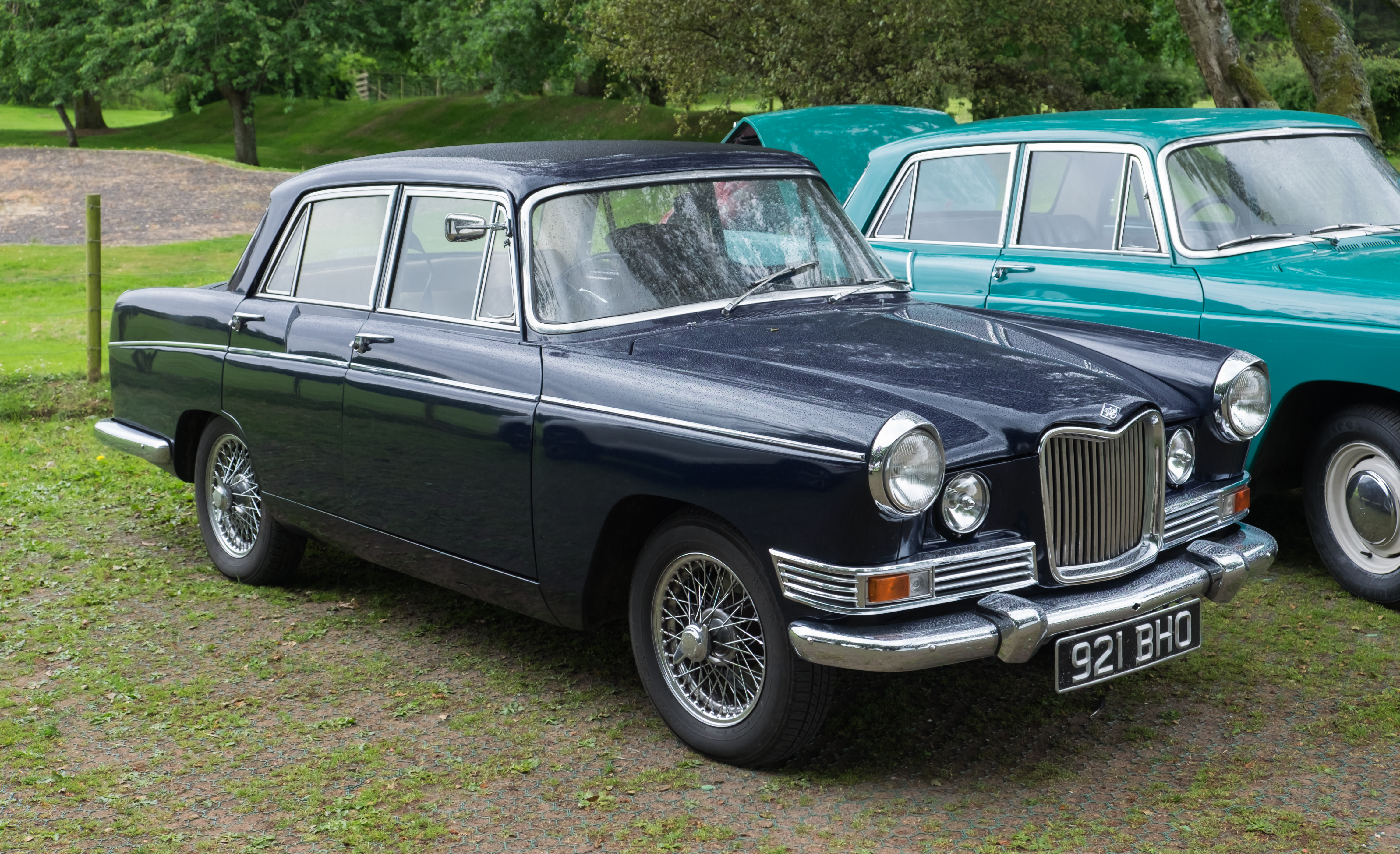 A 1961 Riley 4/68 Riviera. This is apparently the last roadworthy example of this model.[1] The Riviera featured a larger 1622cc engine and reprofiled rear fins, both of which would be features of Riley's own 4/68 replacement, the 4/72.[2]